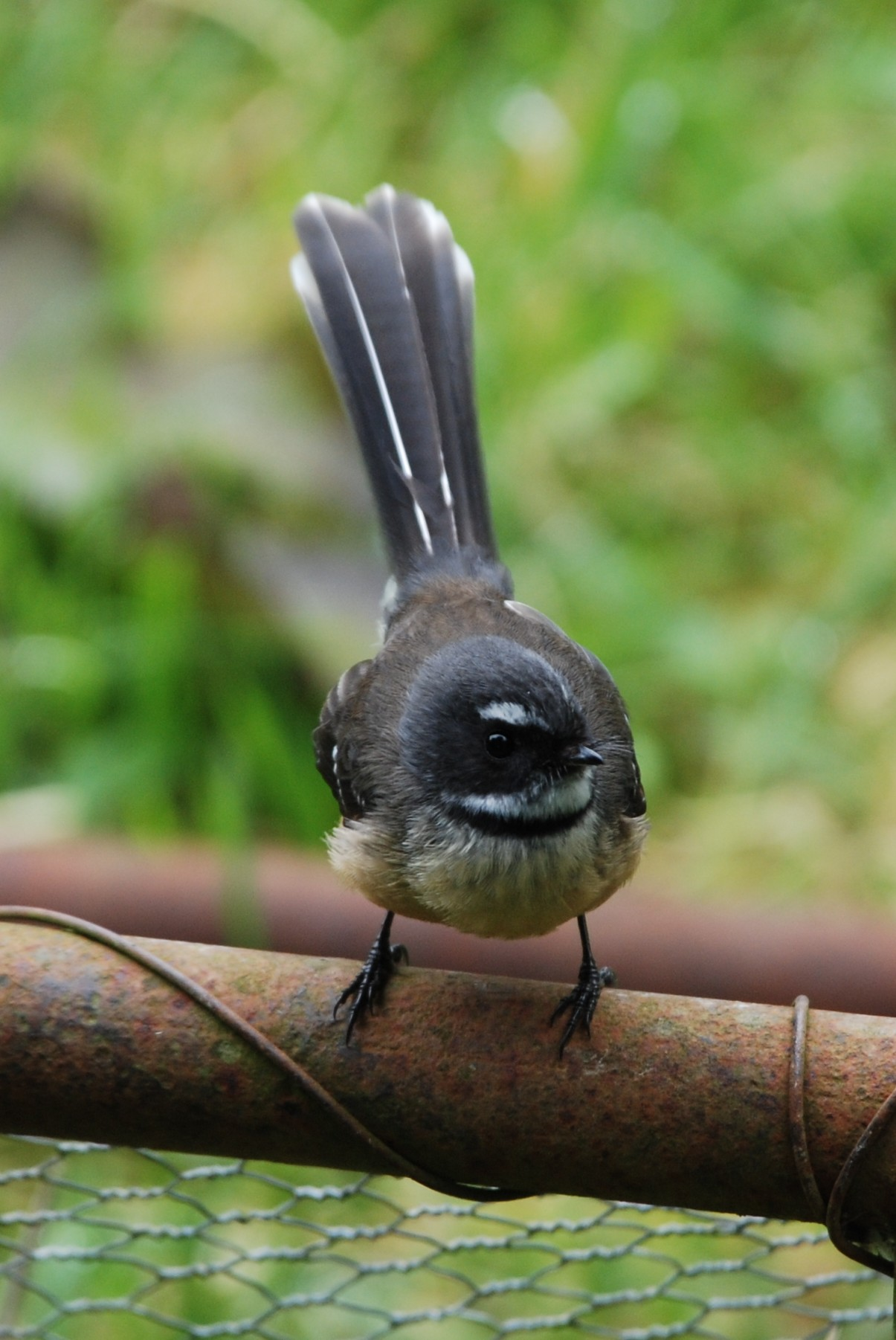 A New Zealand fantail (Rhipidura fuliginosa), Waikato, New Zealand.